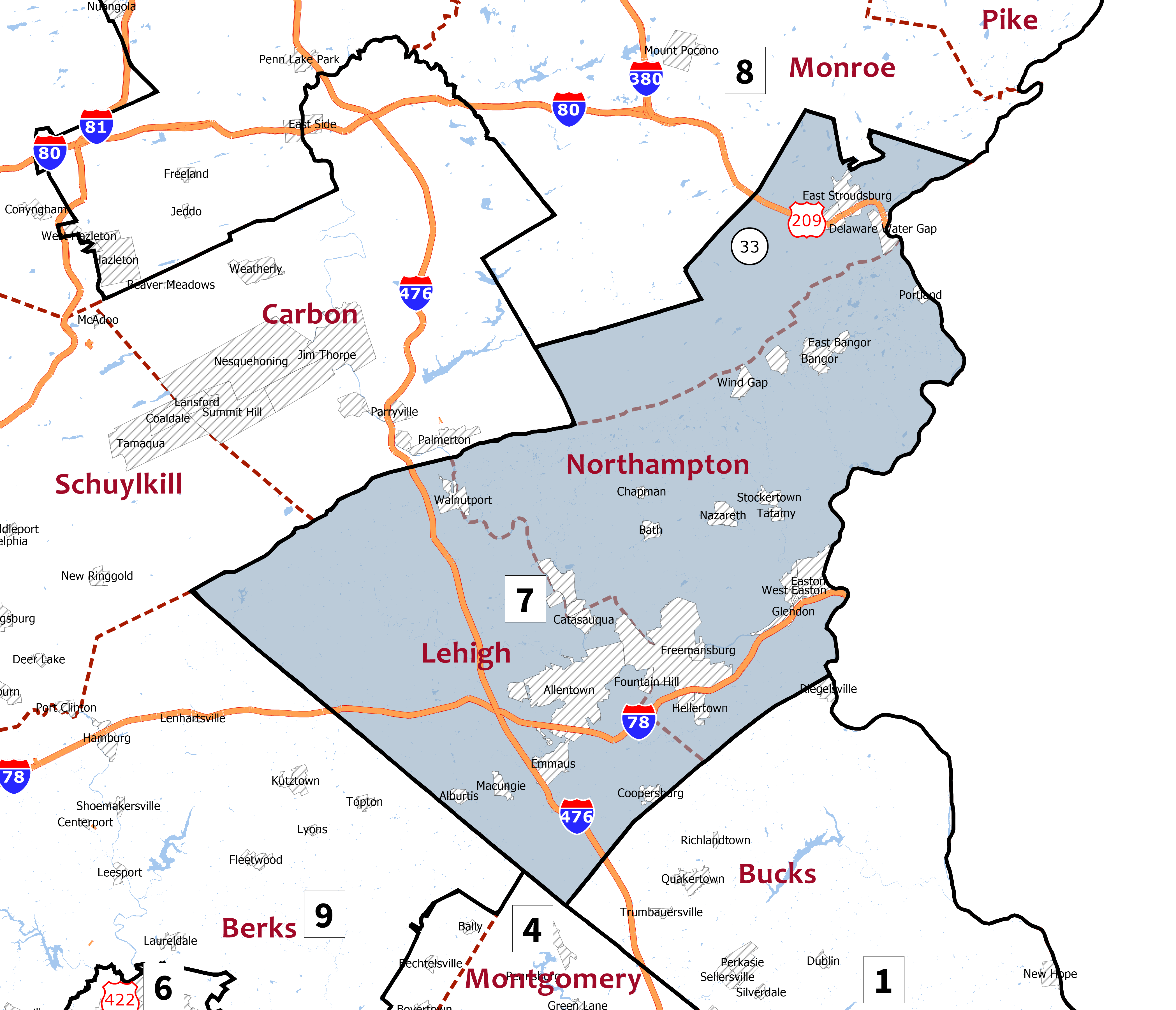 Pennsylvania congressional district 7